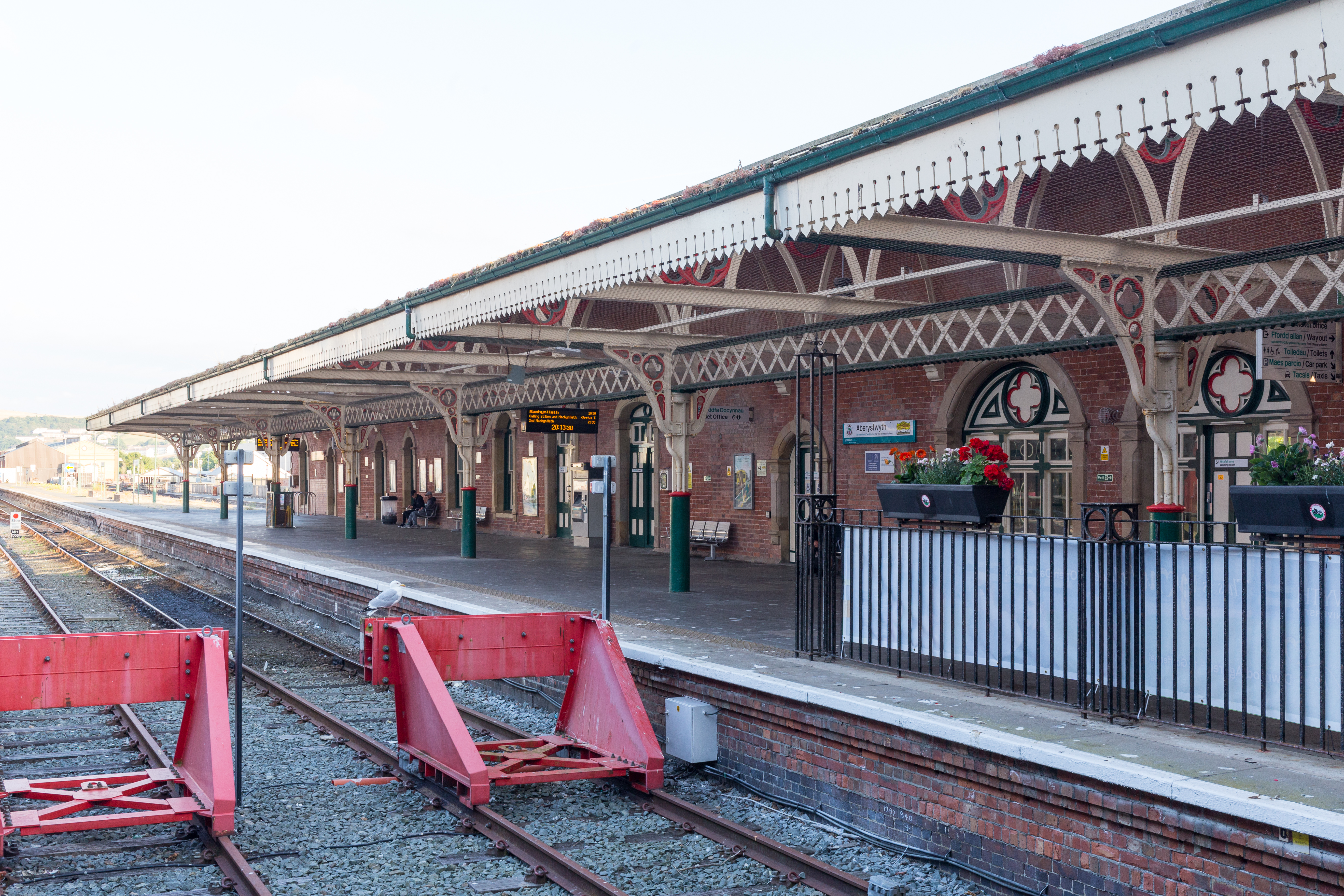 Aberystwyth railway station Wikidata has entry Q2220586 with data related to this item.